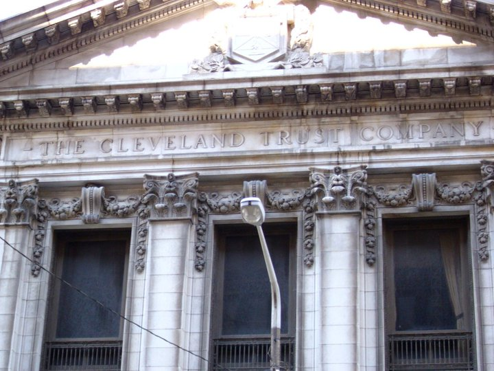 The pediment on The Cleveland Trust